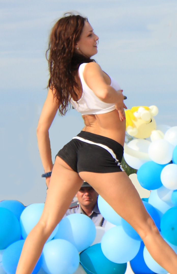 Fitness club show, Severodvinsk